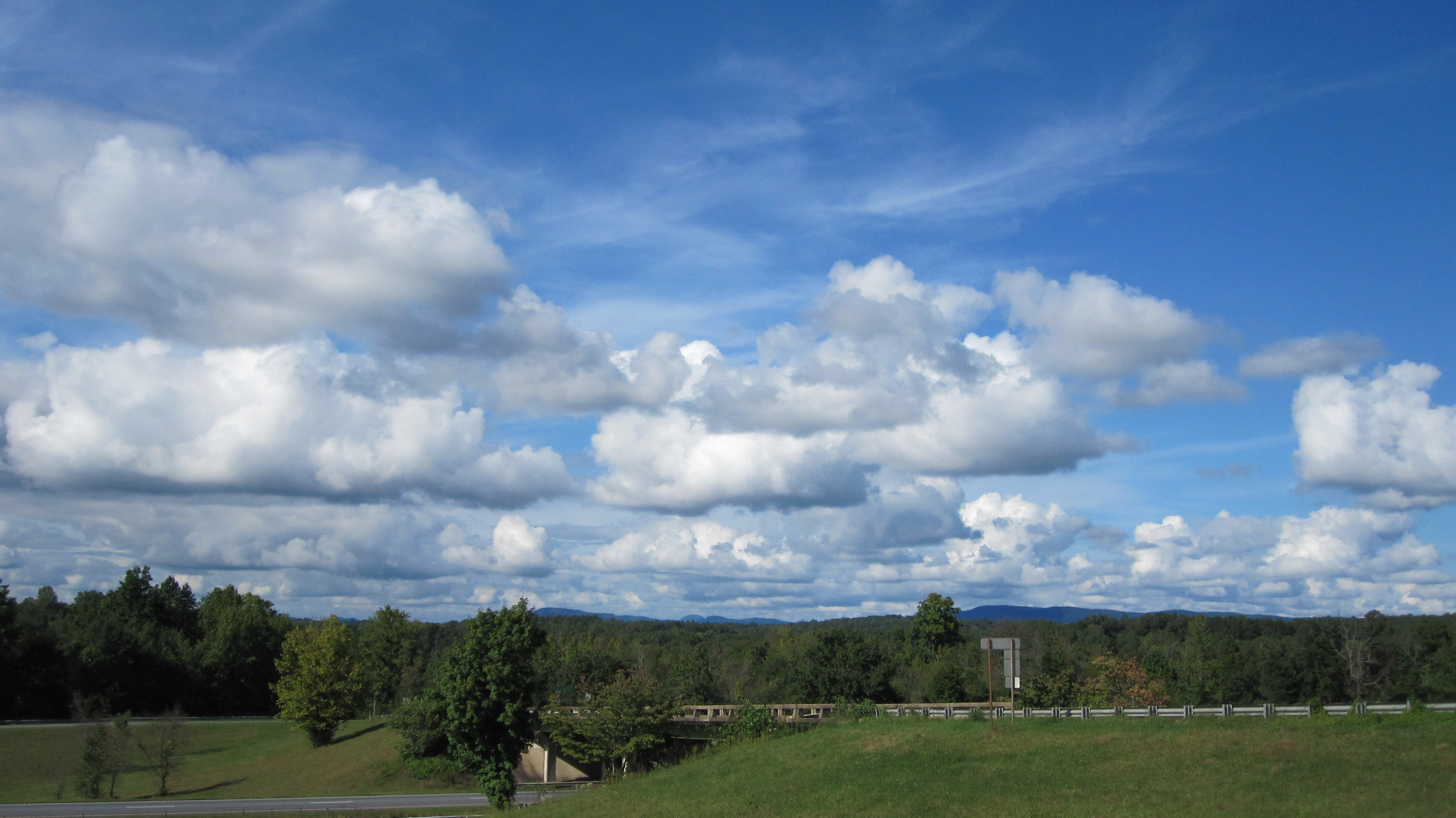 Exit of of U.S. 74 Highway In Forest City NC going towards ellenboro